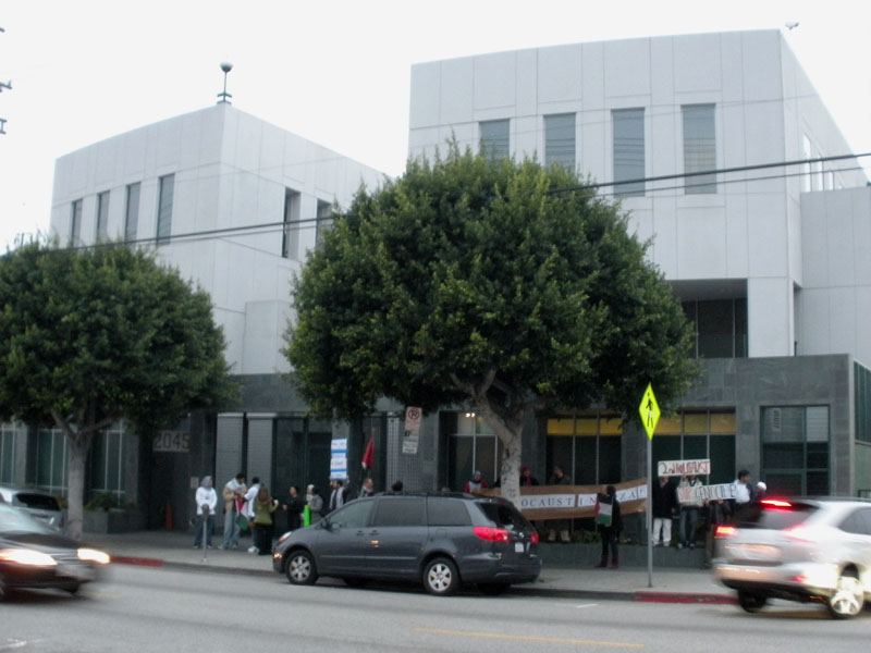 A demonstration in front of the Saudi Arabian Consulate General in Los Angeles - Sawtelle Courtyard Building, 2045 Sawtelle Boulevard [1]